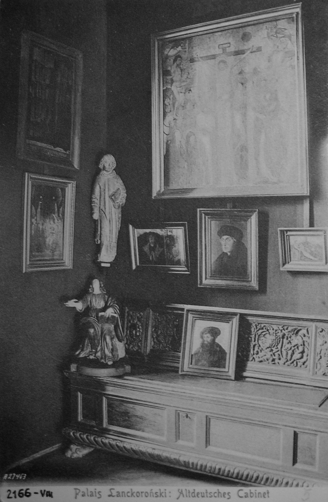 Image of the Palais Lanckoroński in Vienna, which was the private residence of Count Lanckoroński and his vast art collection, which was open to the public. The image is part of a post-card series that were made specifically for the building and its collection.